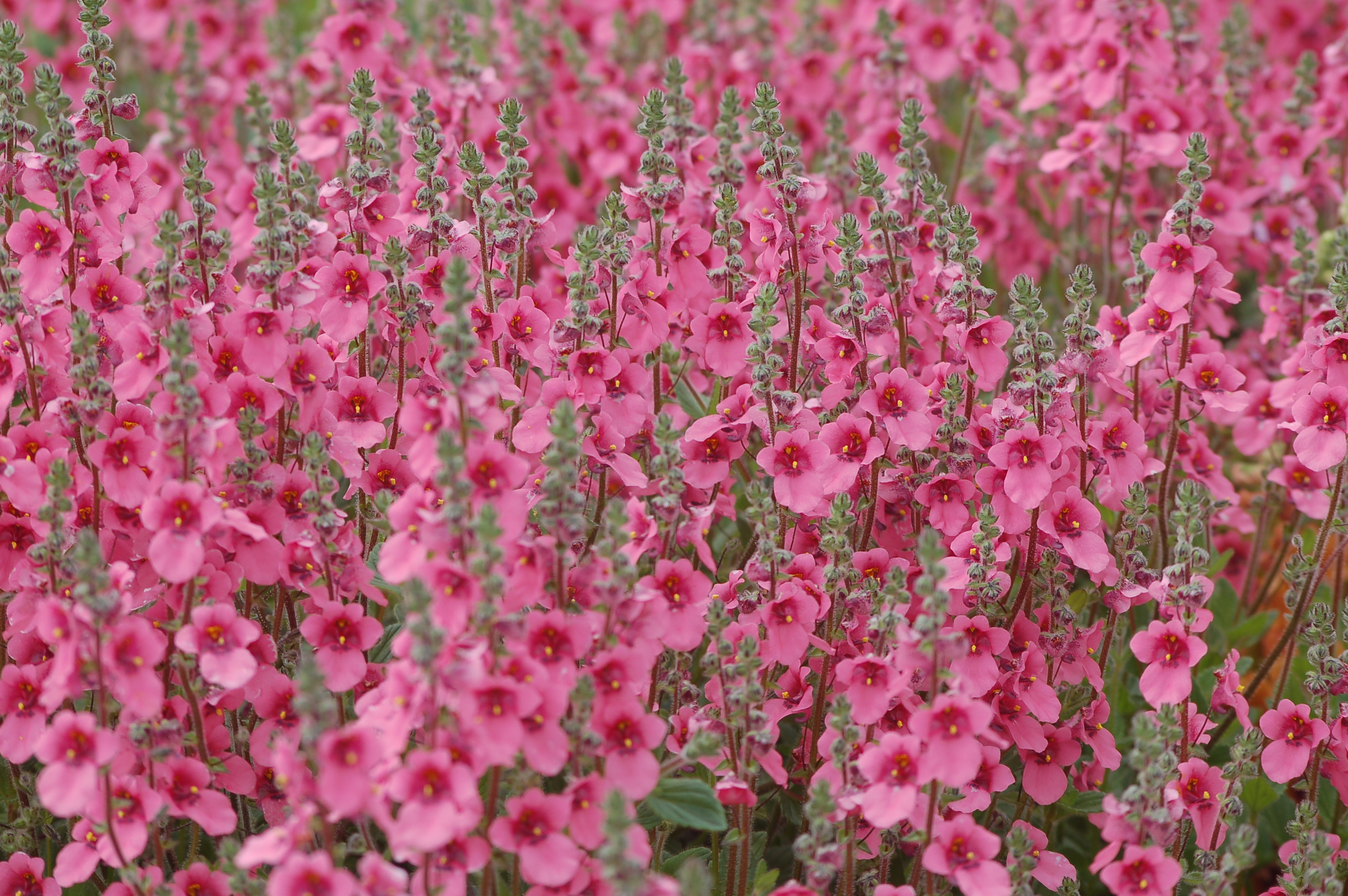 Daydream Diascia Fetcaniensis @ National Botanic Garden Of Wales